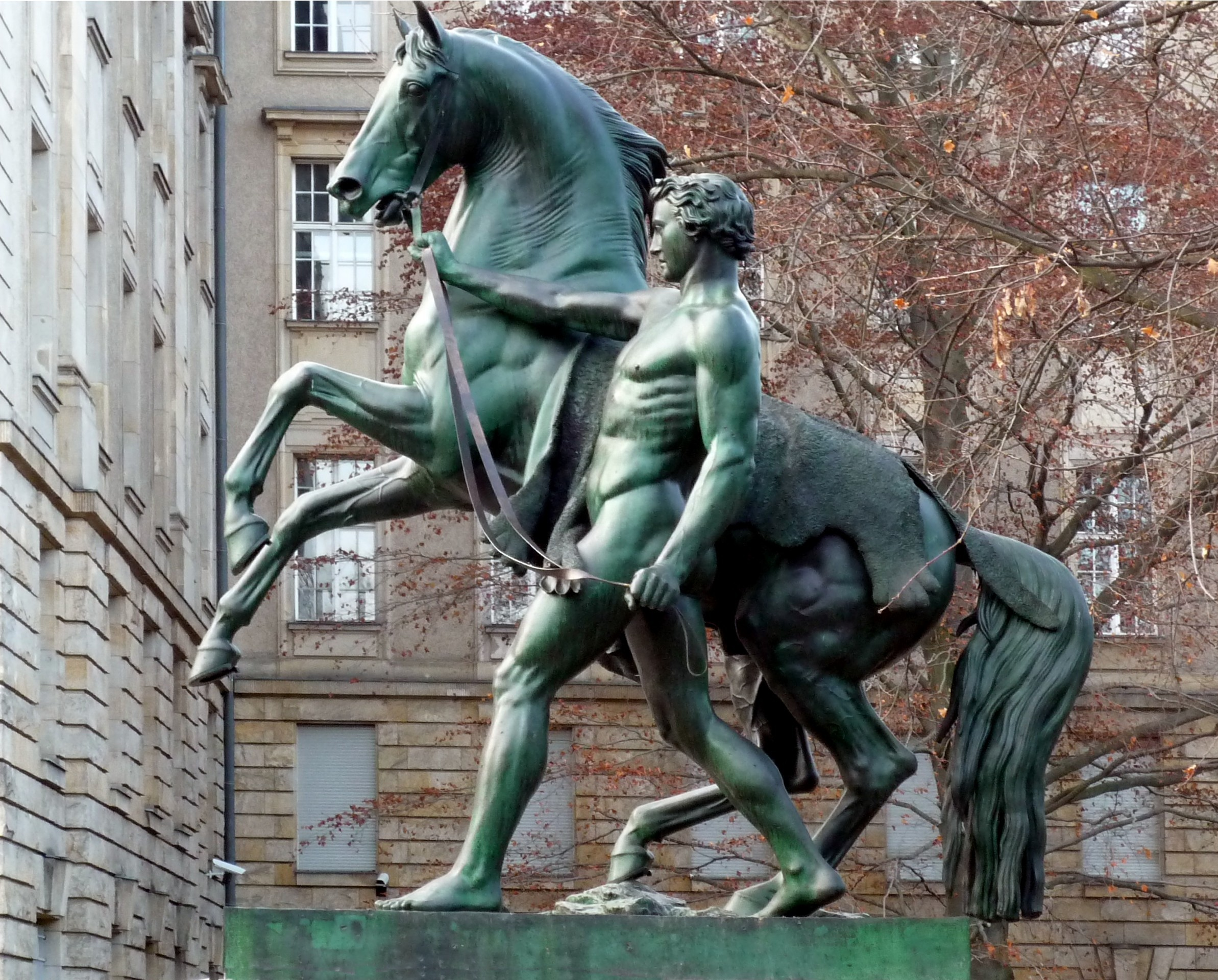 Berlin-Schöneberg, beside the Kammergericht (law-court). Sculpture "Horse-breaker" by Peter Clodt von Jürgensburg. Total view.